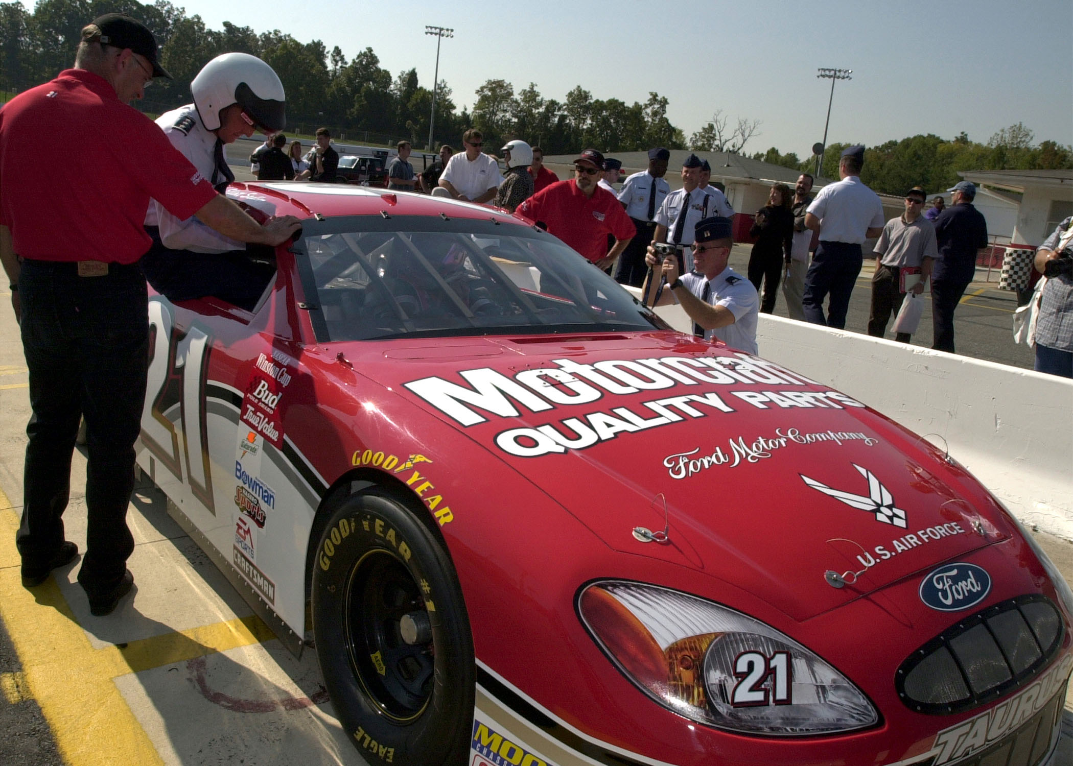 Lt Gen David McIlvoy, Vice Commander AETC climbs into the Wood Brothers Racing #21 at Concord Motor Speedway Elliott Sadler, the driver of the #21 race car took Gen Mcilvoy for a few laps around the speedway to give him the experince of what it feels like to race. The U.S. Air Force announced on October 4, 2000 that it will advertise on the Wood Brothers Racing #21 for the 2001 NASCAR Winston Cup Season. (USAF Photo by Larry McTighe)